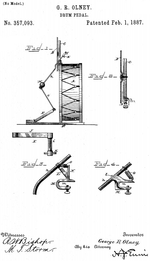 US Patent 357093, drum pedal by G. R. Olney